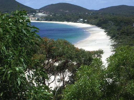 Shoal Bay in Port Stephens, New South Wales, Australia from the headland. Originally posted to Wikipedia by Timc2000 and released into the public domain. Uploaded here for use on Wikinews by Cartman02au